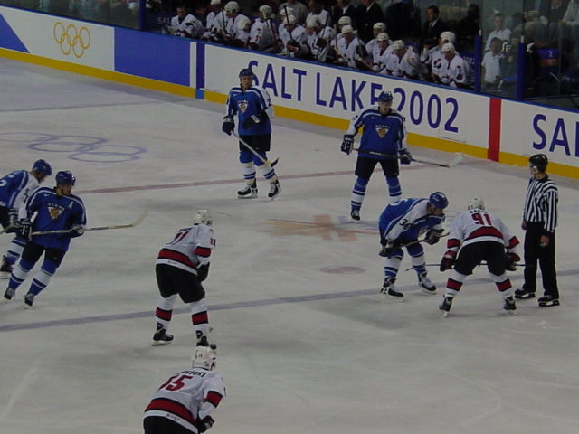 Finland vs Canada, Winter Olympics 2002.